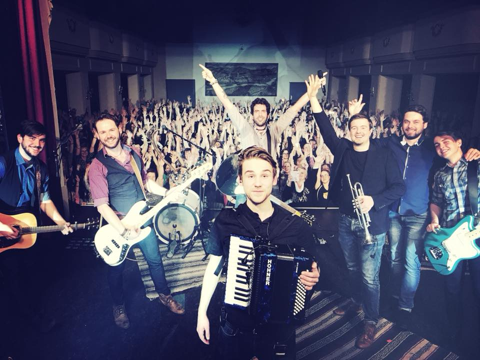 Czech Band Jelen 2018